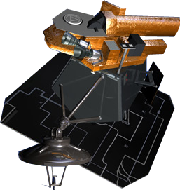 Artist's concept of the Deep Impact spacecraft.